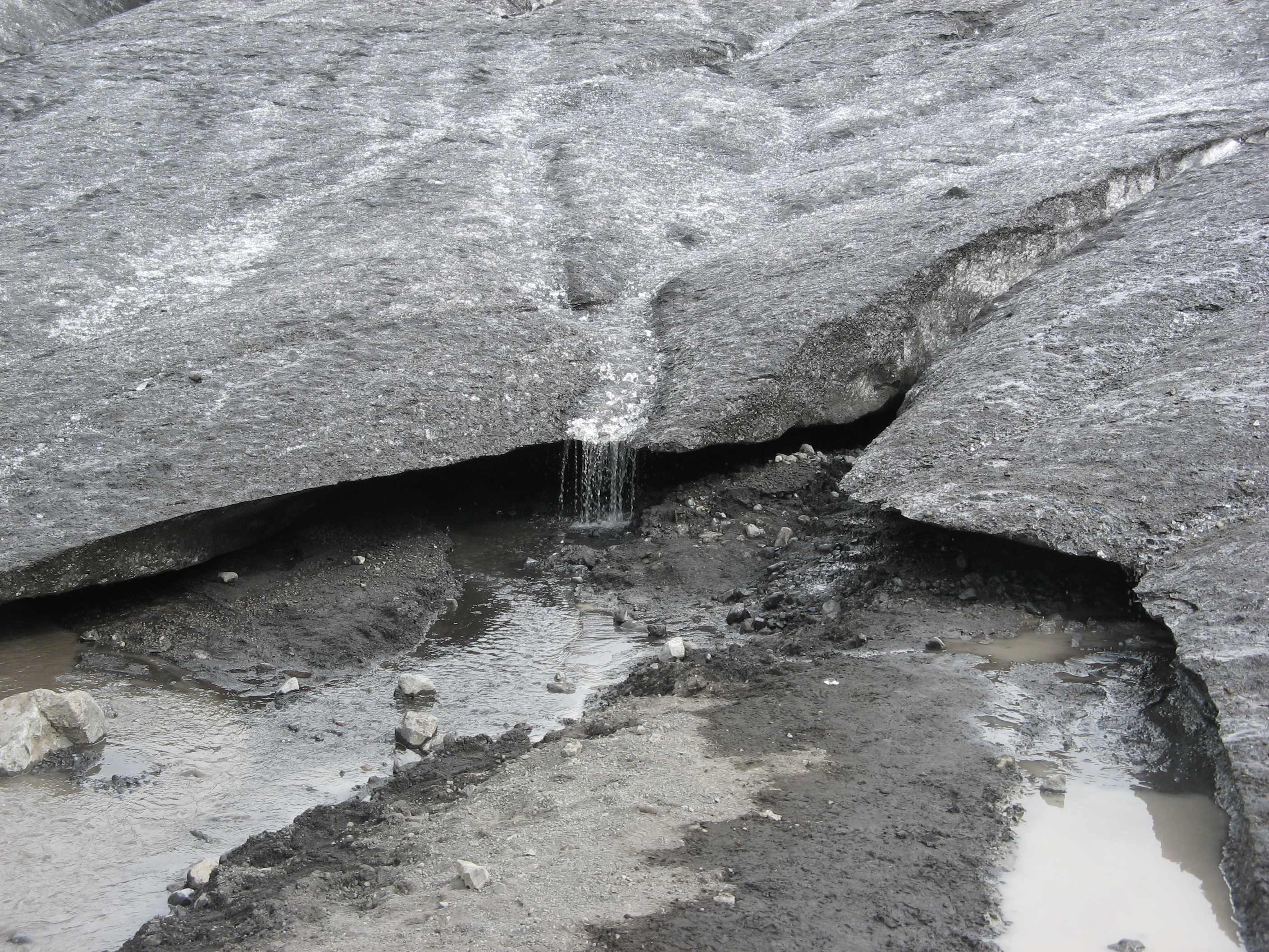 Skaftafellsjökull glacier is melting